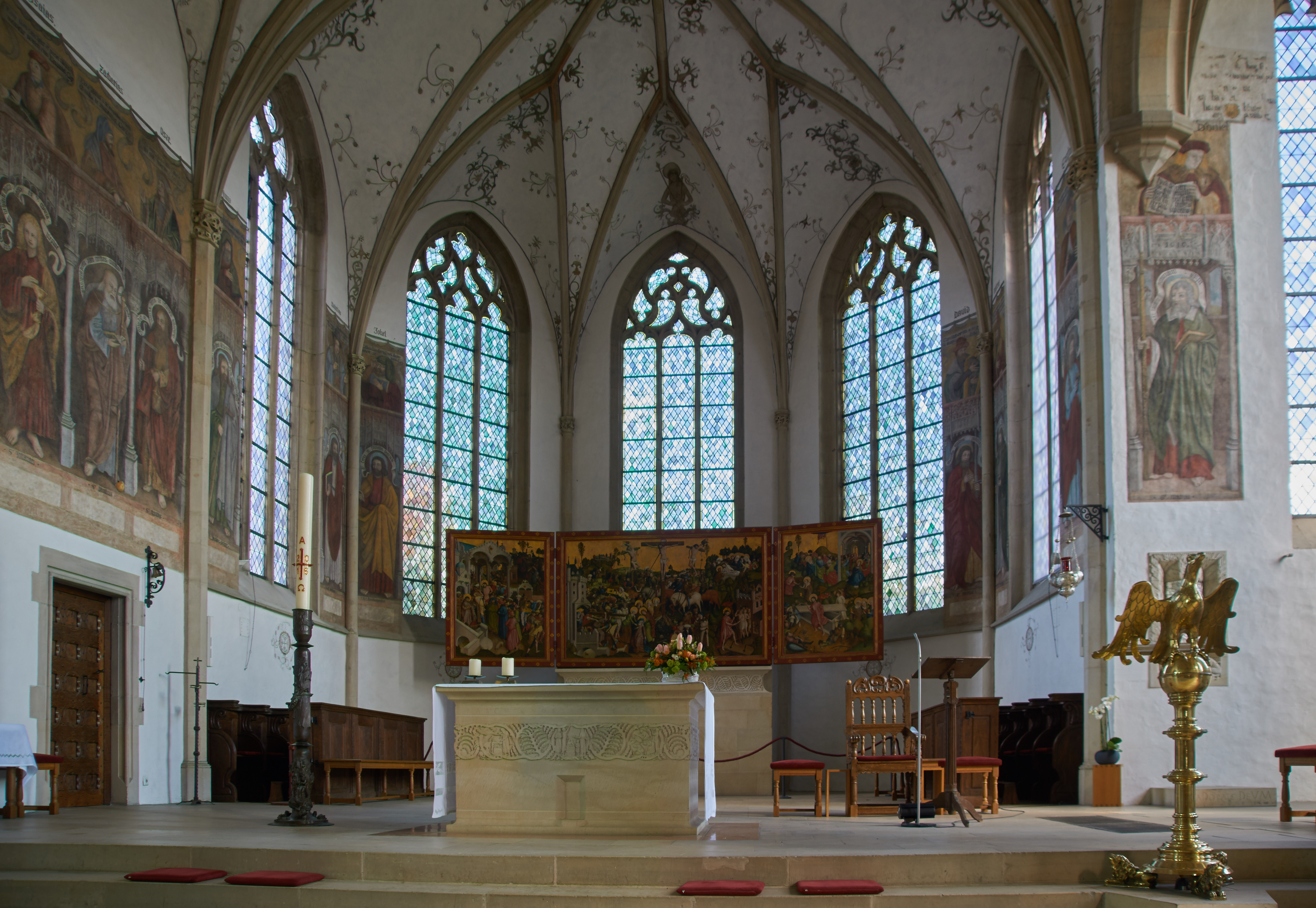 St. Brictius is a church in Schöppingen, North Rhine-Westphalia, Germany. This is a photograph of an architectural monument.